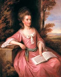 Portrait of Martha Ray (c. 1742-1779)